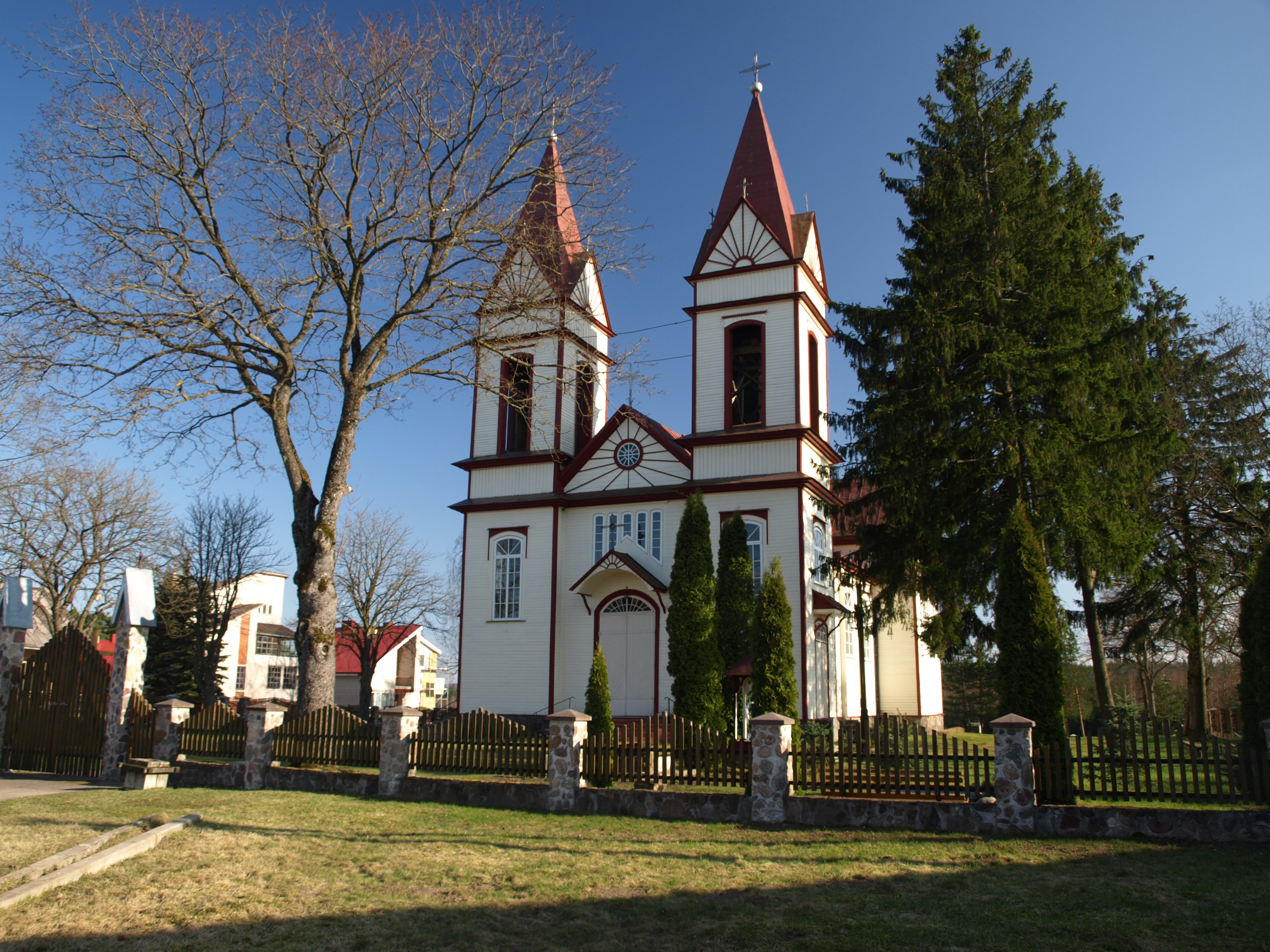 Aukštadvaris church, Trakai district, Lithuania